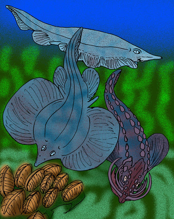 Reconstructions of the prehistoric cartilaginous fishes Janassa bituminosa and Menaspis armatus, from Permian Europe (C) Stanton F. Fink